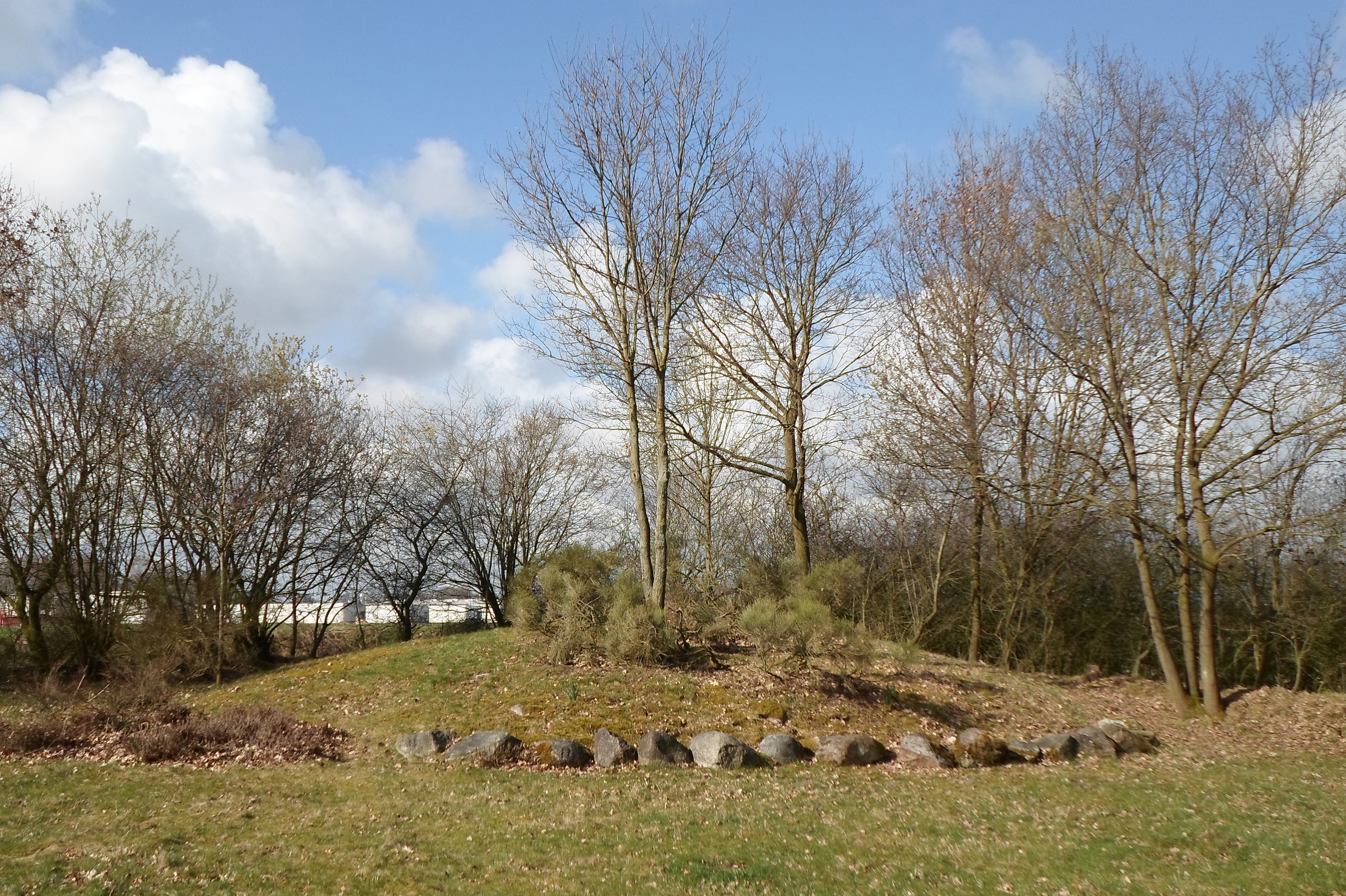 Grave mound at Hexenberg in Ganderkesee